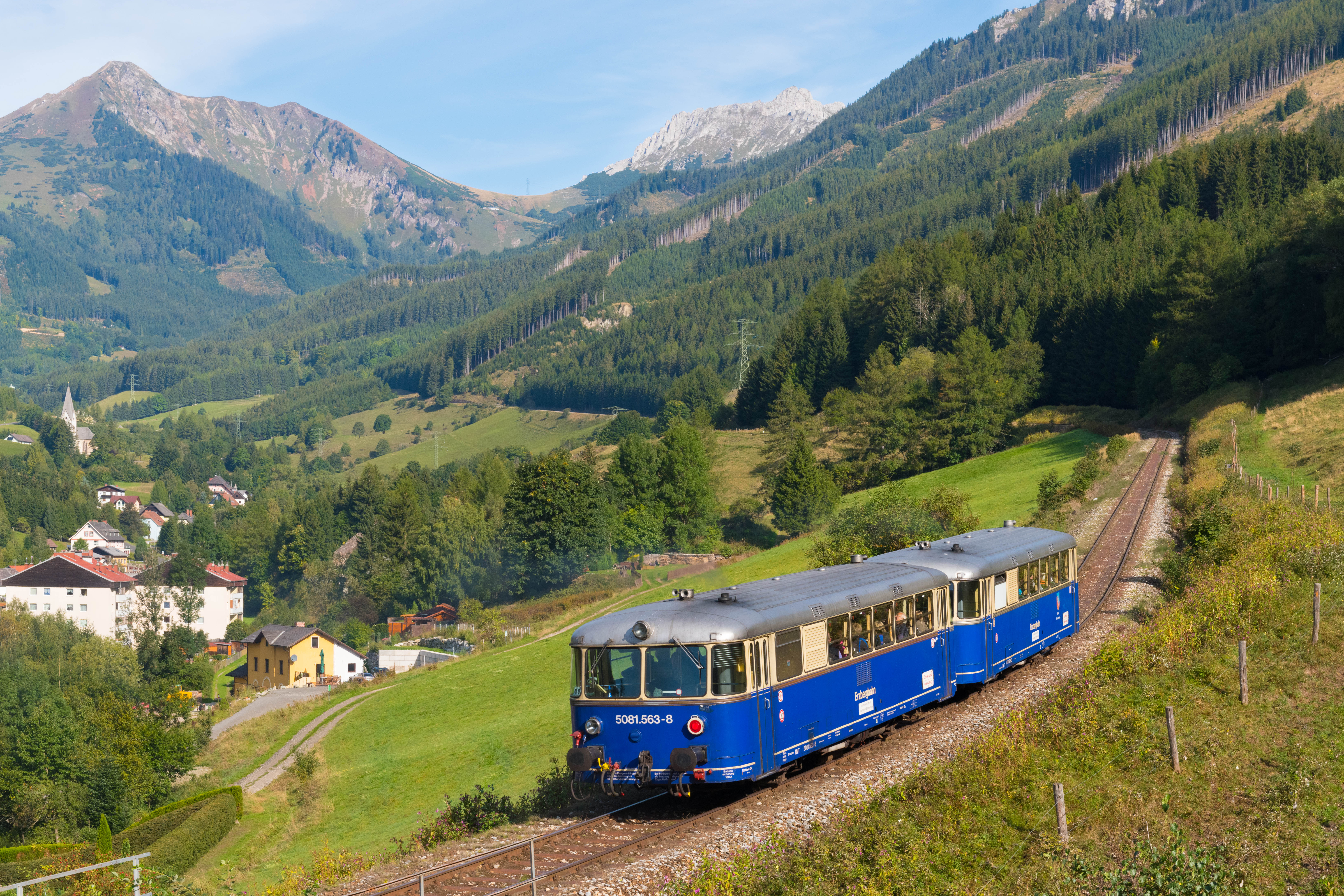 A train set of the Erzbergbahn museum railway formed by two type 5081-DMUs near Vordernberg.